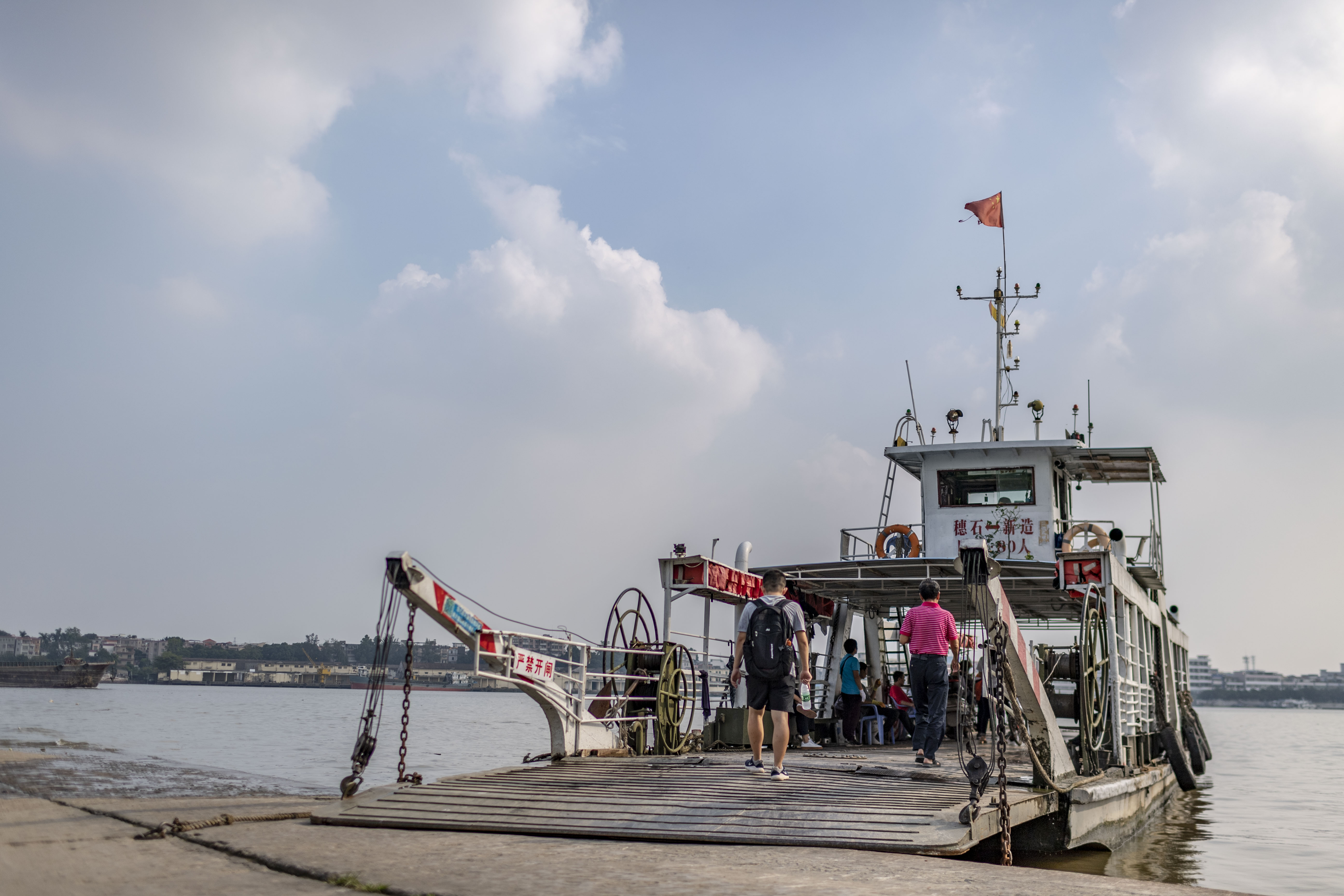 Sui Shi Ferry in HEMC